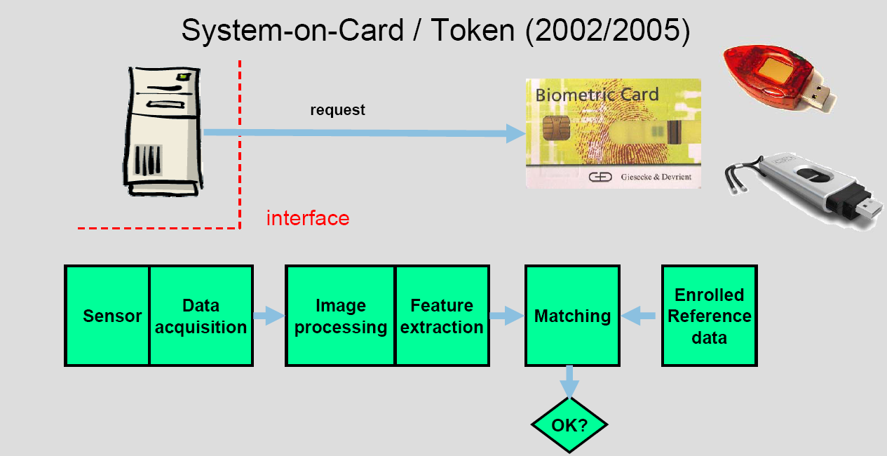 How To Match On Card